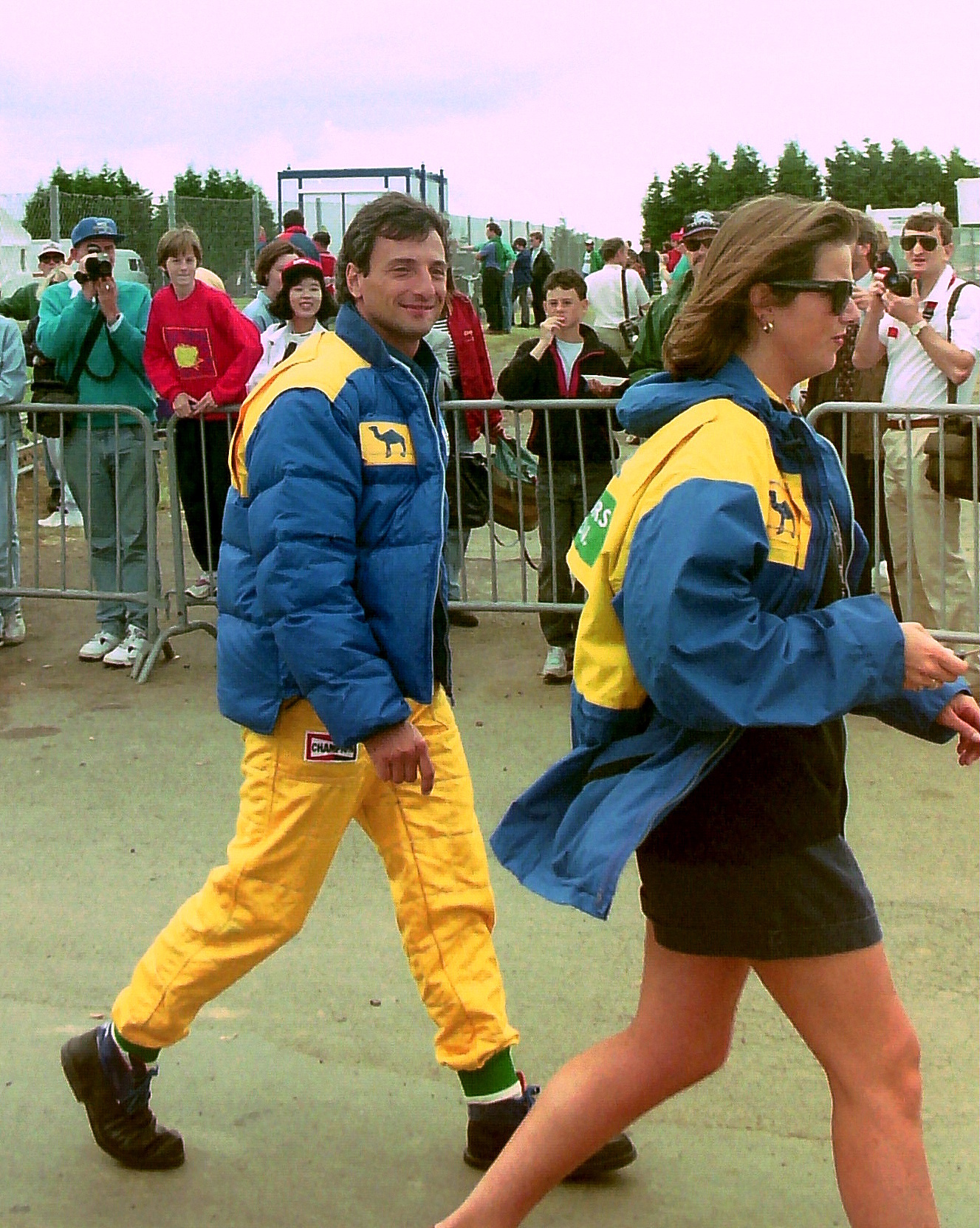 Riccardo Patrese in the paddock before the 1993 British Grand Prix